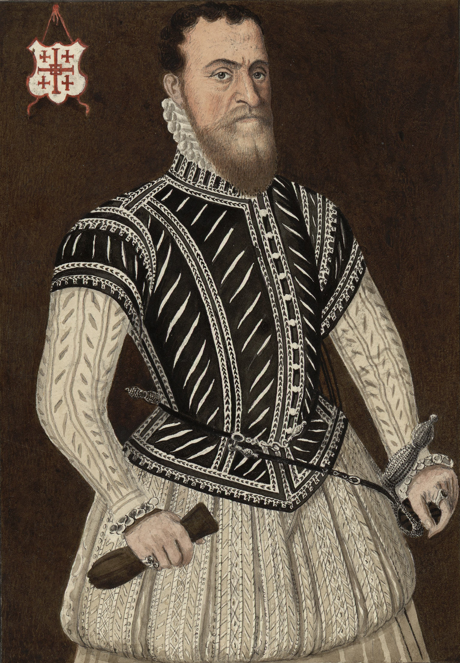 An image from a set of 8 extra-illustrated volumes of A tour in Wales by Thomas Pennant (1726-1798) that chronicle the three journeys he made through Wales between 1773 and 1776. These volumes are unique because they were compiled for Pennant's own library at Downing. This edition was produced in 1781. The volumes include a number of original drawings by Moses Griffiths, Ingleby and other well known artists of the period. Thomas Pennant (1726-1798)